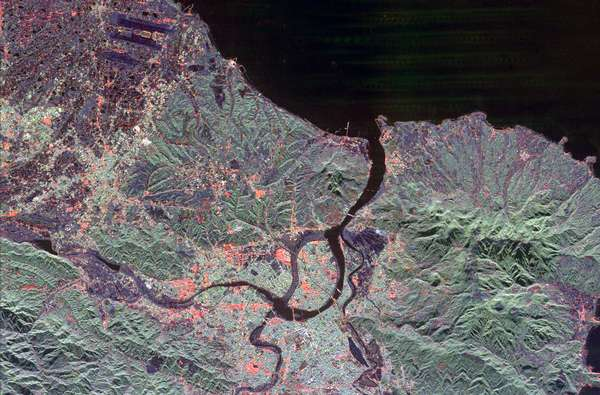 The northern end of the island country of Taiwan, including the capital city of Taipei, is shown in this spaceborne radar image. Taipei is the bright blue and red area in the lower center of the image. A portion of the city sits on an island surrounded by the Keelung and Freshwater Rivers. The main channel of the Freshwater River is to the right of the island and appears dark in the image. The channel to the left of the island is no longer active and appears lighter. Rugged, heavily vegetated mountains surround the city and are shown in green. The runways of the Chiang Kai Shek International Airport are seen as dark parallel strips in the upper left of the image. This image was acquired by Spaceborne Imaging Radar-C/X-Band Synthetic Aperture Radar (SIR-C/X-SAR) onboard the space shuttle Endeavour on April 10, 1994. The image is 50 kilometers by 33 kilometers (31 miles by 20 miles) and is centered at 25.1 degrees north latitude, 121.5 degrees east longitude. North is toward the upper right. The colors are assigned to different radar frequencies and polarizations of the radar as follows: red is L-band, horizontally transmitted and received; green is L-band, horizontally transmitted, vertically received; and blue is C-band, horizontally transmitted, vertically received. SIR-C/X-SAR, a joint mission of the German, Italian and United States space agencies, is part of NASA's Mission to Planet Earth program.